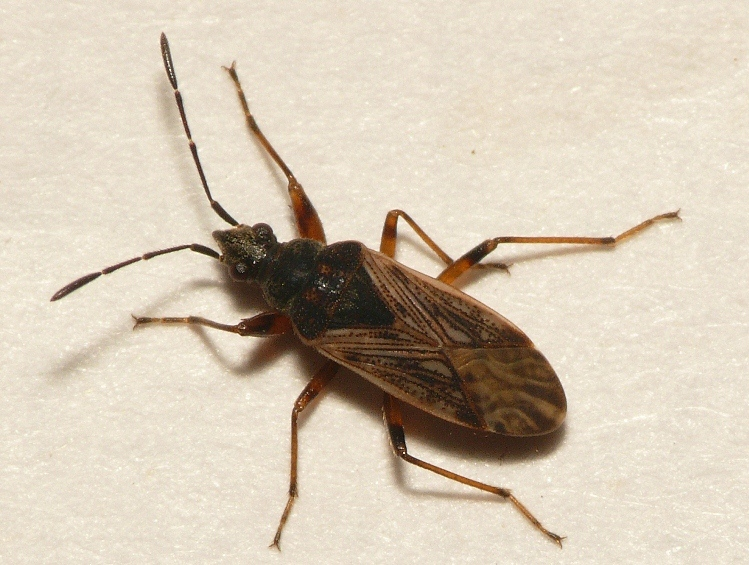 Pachybrachius fracticollis, location: The Netherlands - Rhenen - Blauwe Kamer